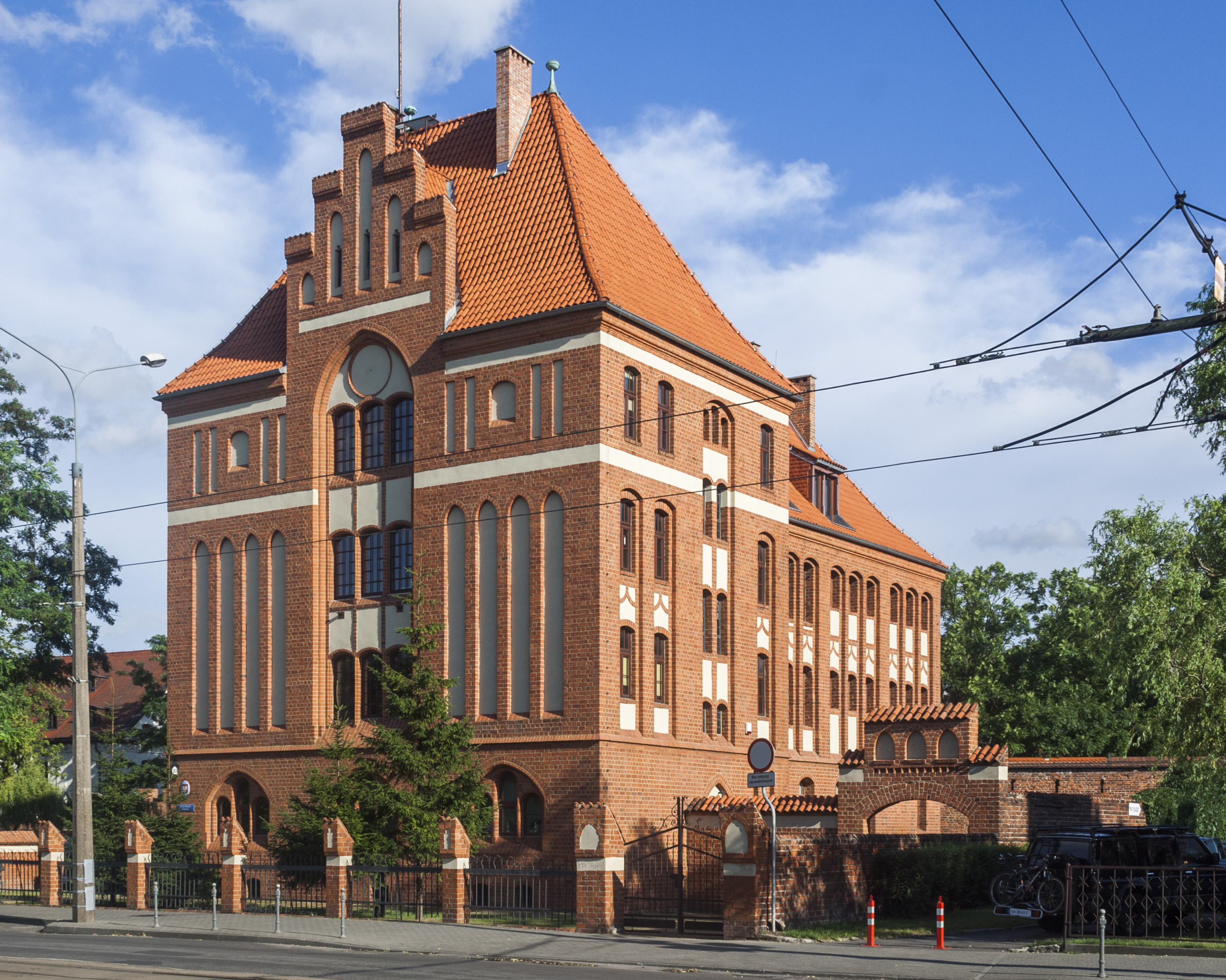 Building at 10 Wały Generała Sikorskiego in Toruń, former police station, nowadays town council department.